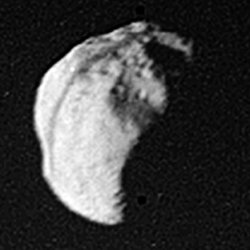 Detail of Voyager 1 raw image showing the Saturnian satellite Epimetheus. The image was taken from 176,000 km one hour before Voyager's closest approach to Saturn, on 12 November 1980. Epimetheus is about 110 km in diameter at the poles (north is at 1:00). The large crater at the center of the image is about 35 km in diameter. The dark semi-circular line on the moon to the left is the shadow of Saturn's F-ring.